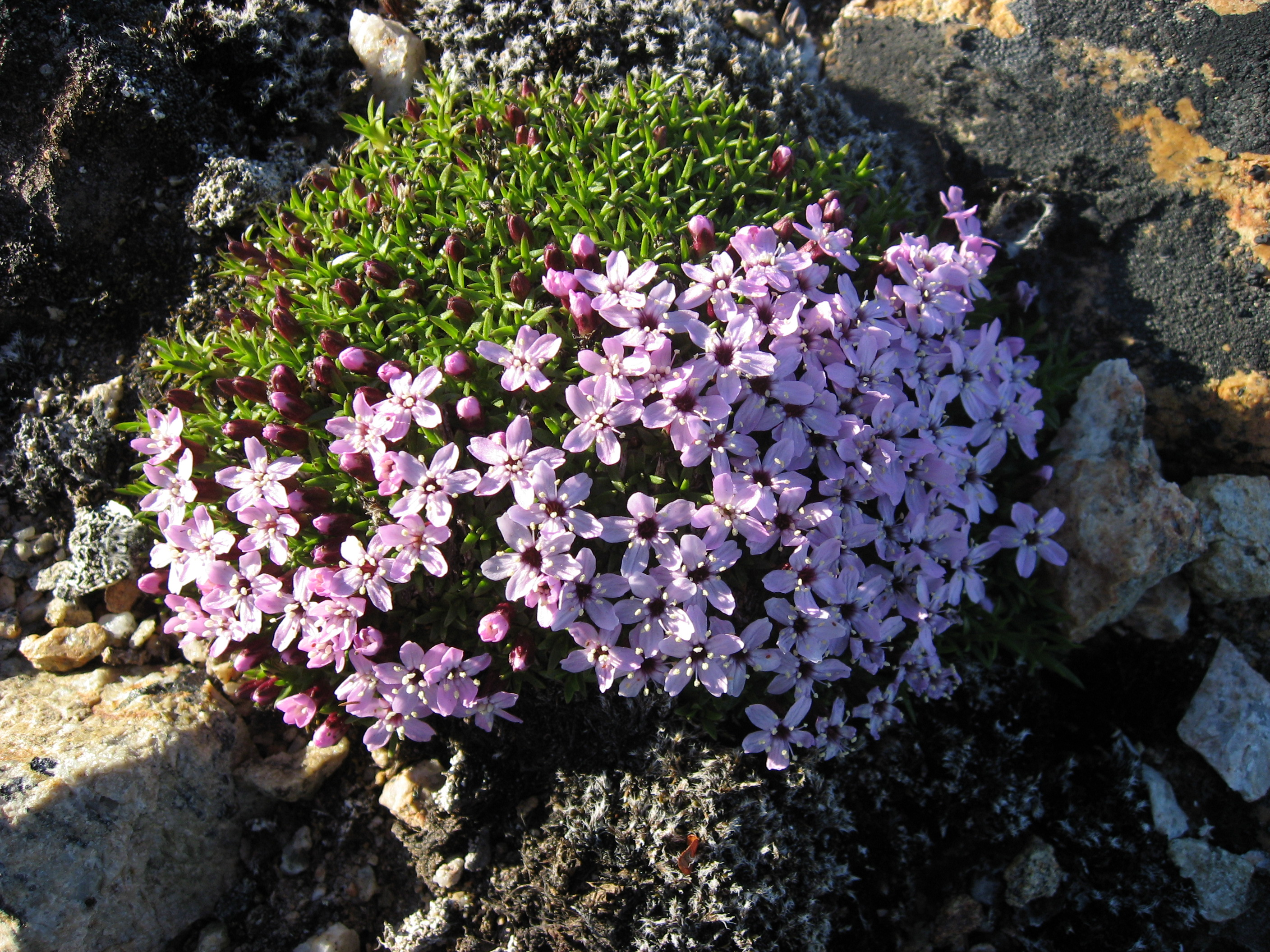 Moss Campion (Silene acaulis) photographed near Upernavik, Greenland.